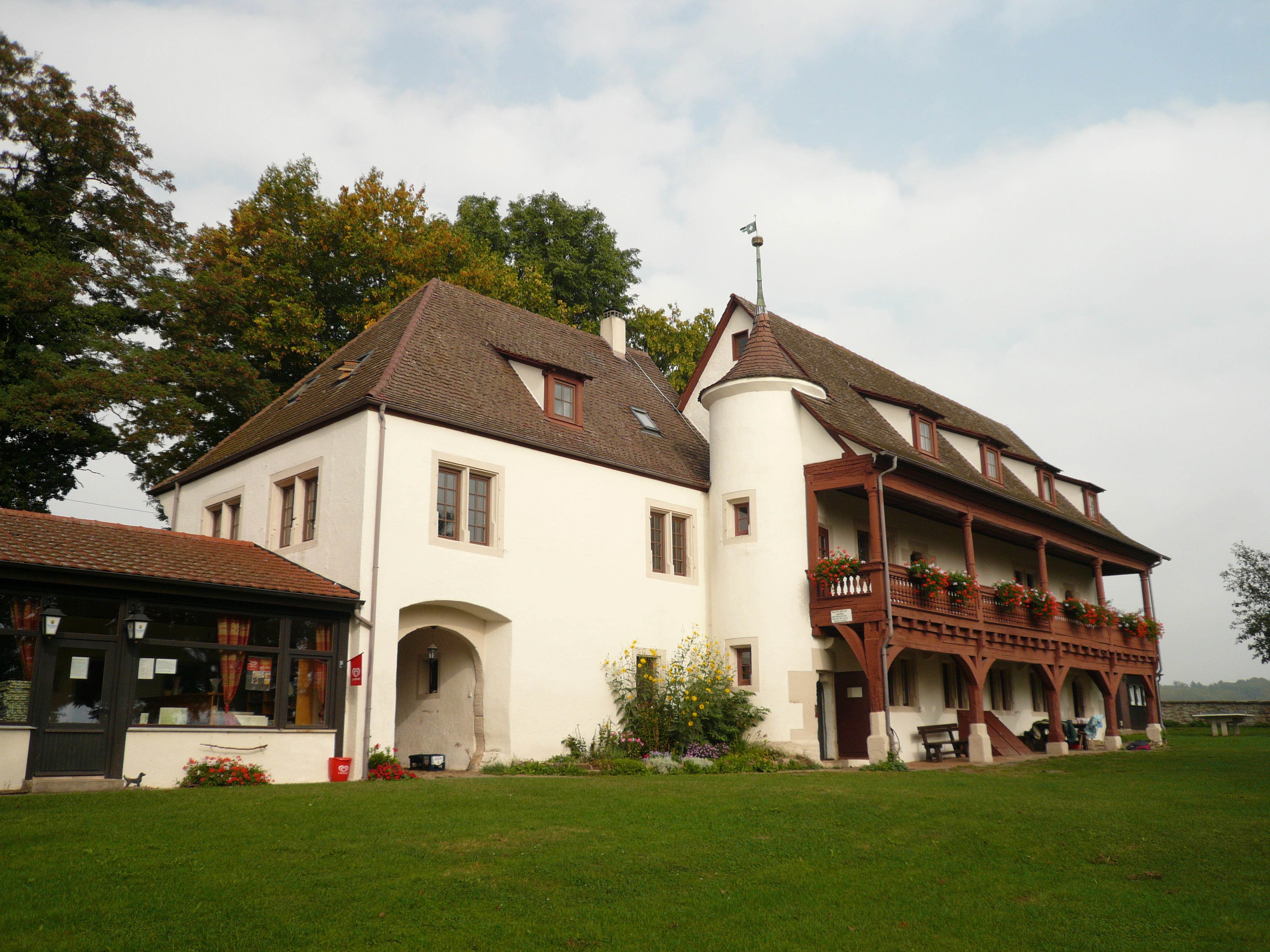 Castle Einsiedel near Tuebingen